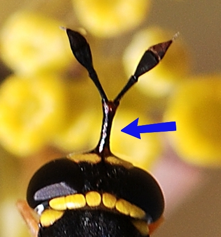 Head detail of Ceriana vespiformis with the antennae placed on a long prominence frontal